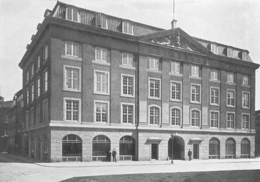 Christian Hasselbalch's property at Kejsergade 2 in Copenhagen, Denmark